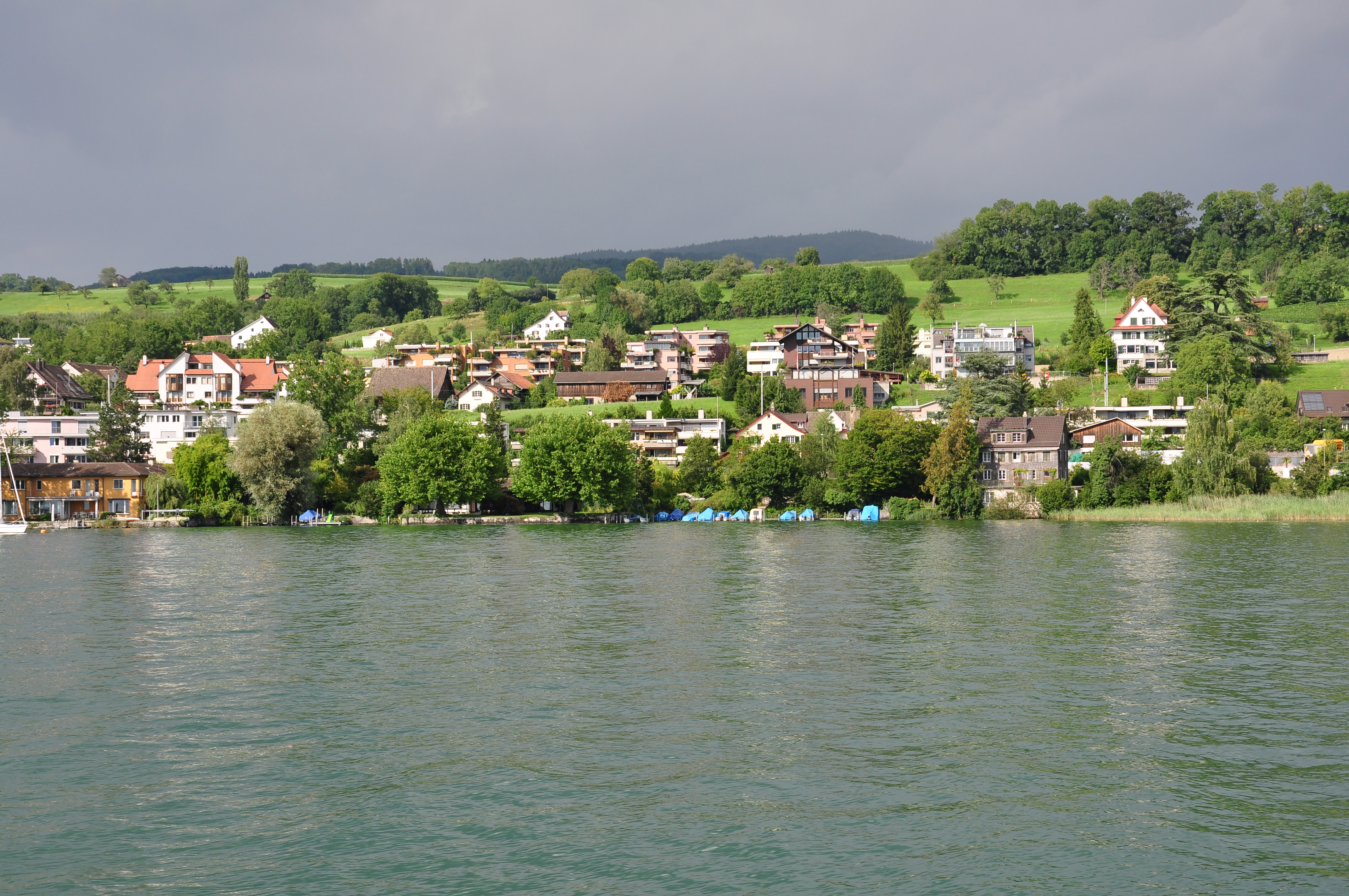 Feldmeilen (Switzerland) as seen from ZSG motorship Limmat